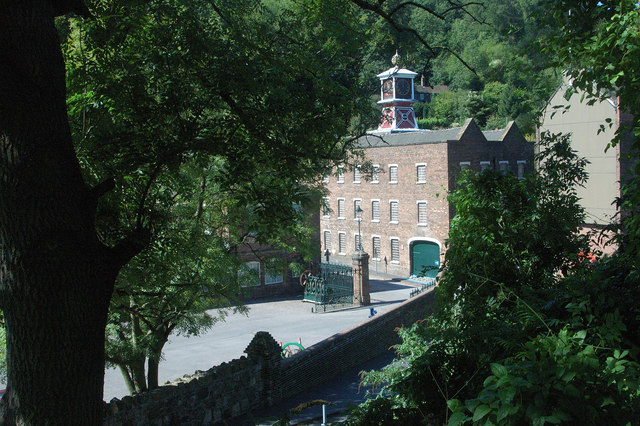 Coalbrookdale Museum